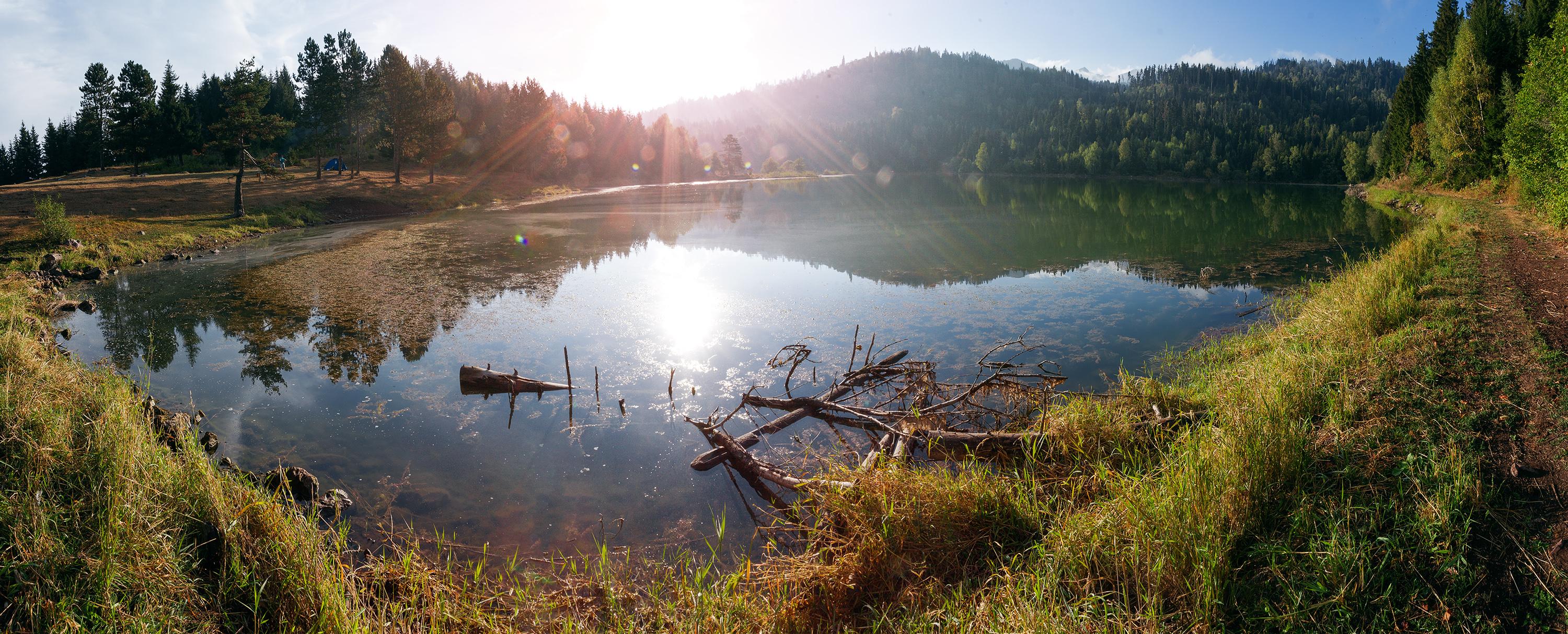 Lake Kakhisi The morning sunlight rays shine